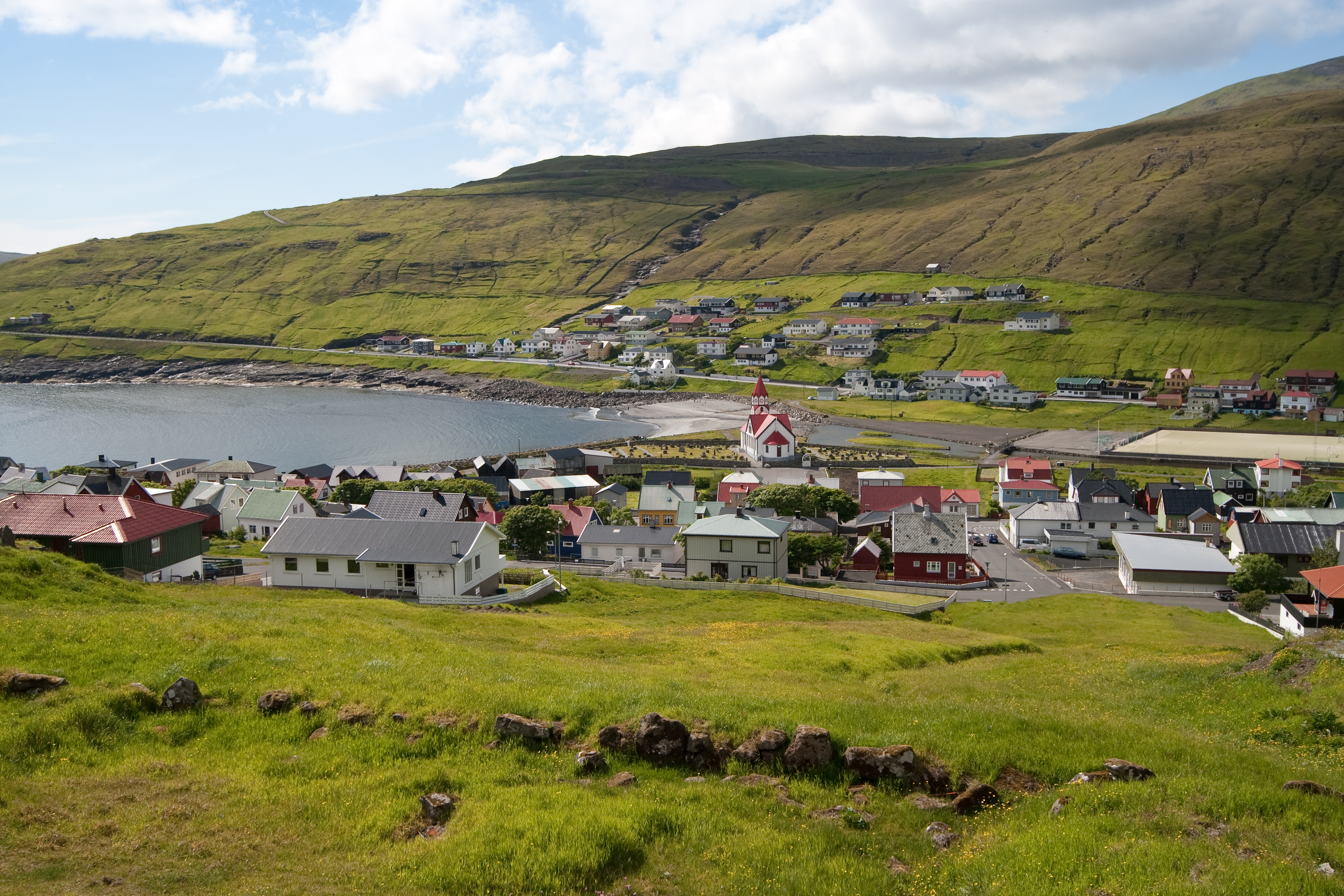 The town of Sandavágur at the southern coast of Vágar, one of the Faroe Islands.